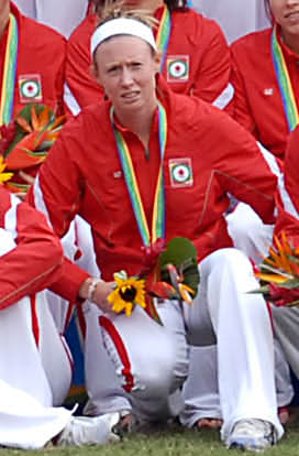 Brazil (gold), the USA (silver) and Canada (bronze) make up the podium for Women's Football at the 2007 Pan American Games in Rio de Janeiro